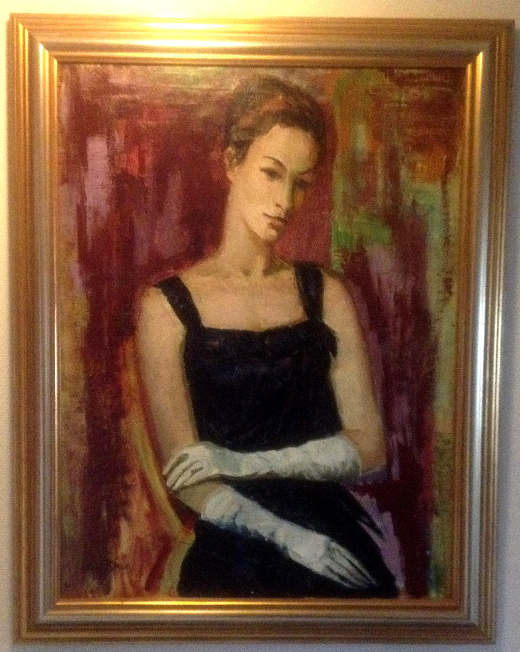 Ingrid, by Germaine Brus. Verrept Award 1961